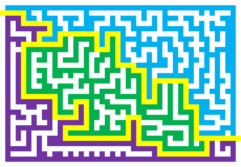 Maze with two possible ways (marked in yellow). The maze has therefor three connected components whitch are shown in different colors